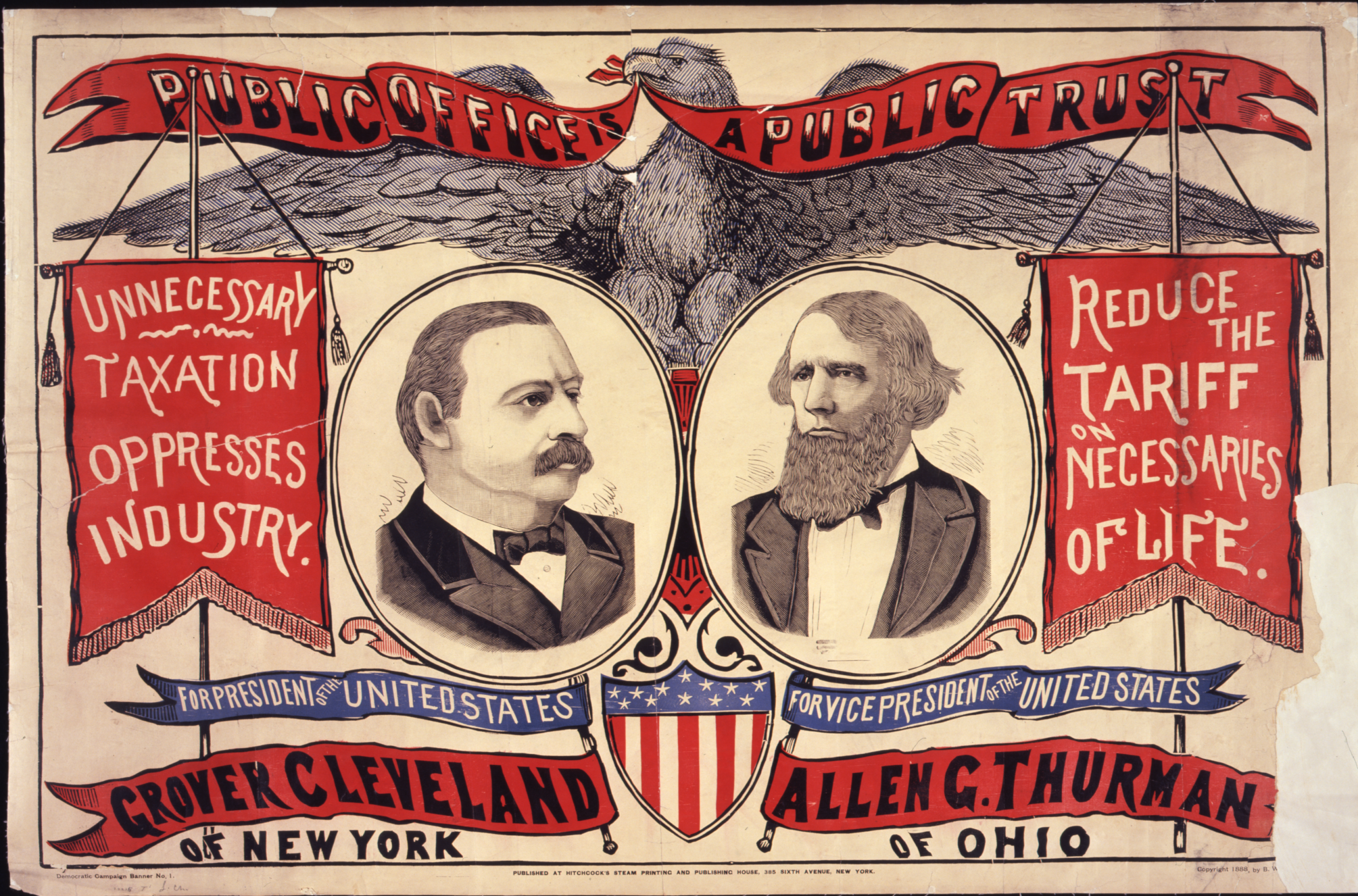 Public office is a public trust For President of the United States, Grover Cleveland of New York ; For Vice-President of the United States, Allen G. Thurman of Ohio (1888).